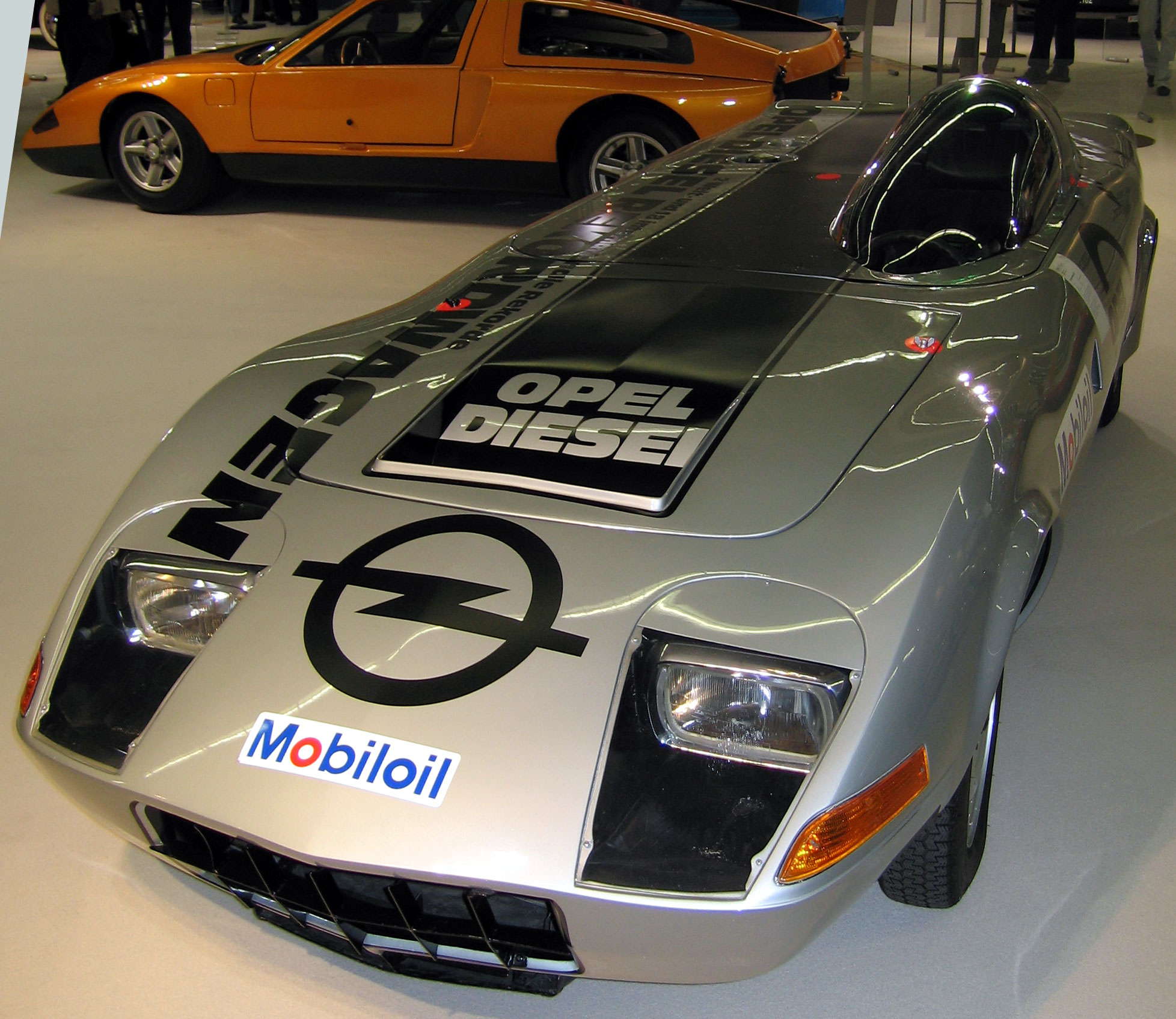 Opel GT record car built in 1972 at the IAA 2007. 4 Cylinder Diesel engine with 2068 ccm, 95 hp, vmax 197 kph; speed record for Disel vehicles